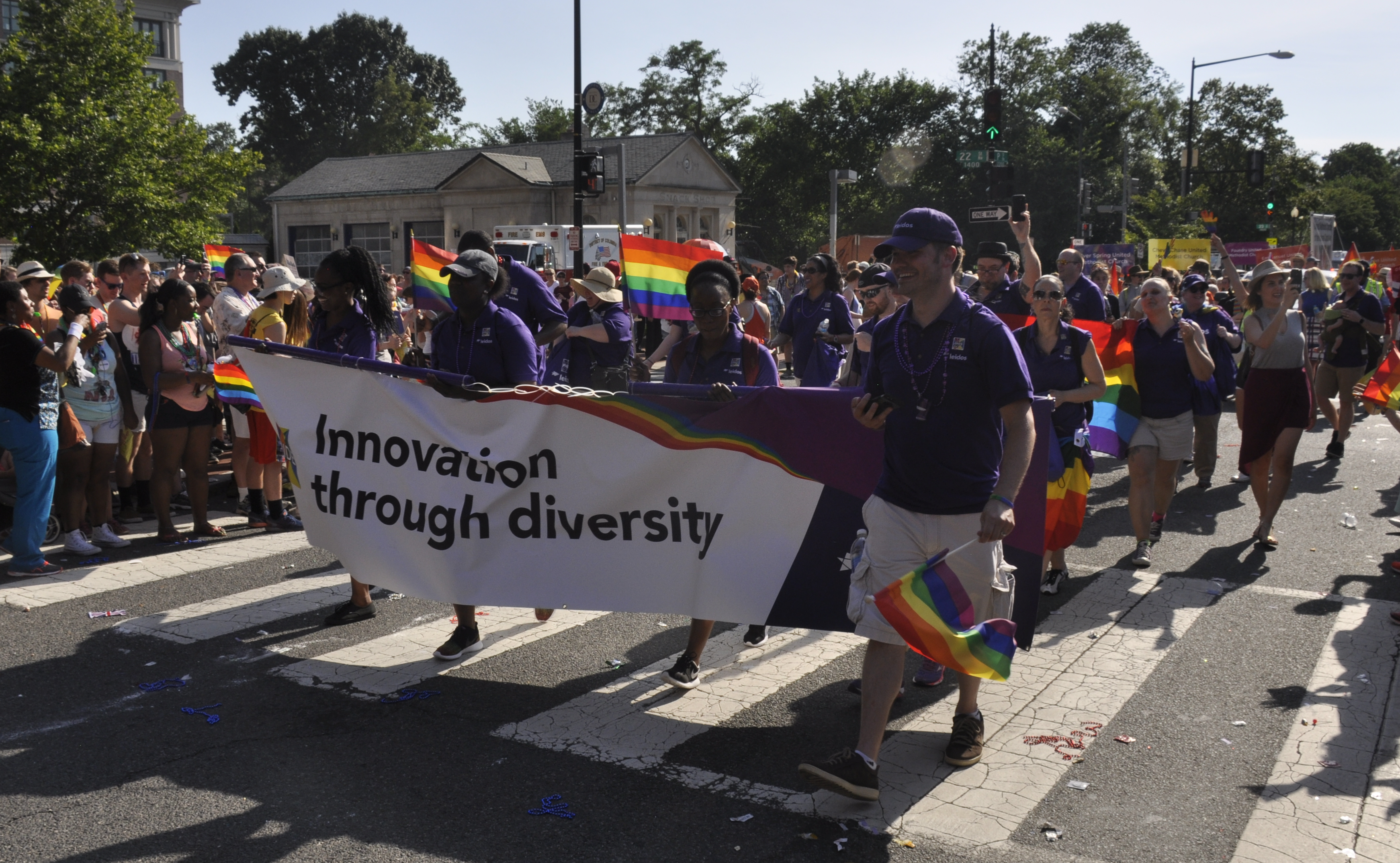 2017 Capital Pride in Washington, D.C.